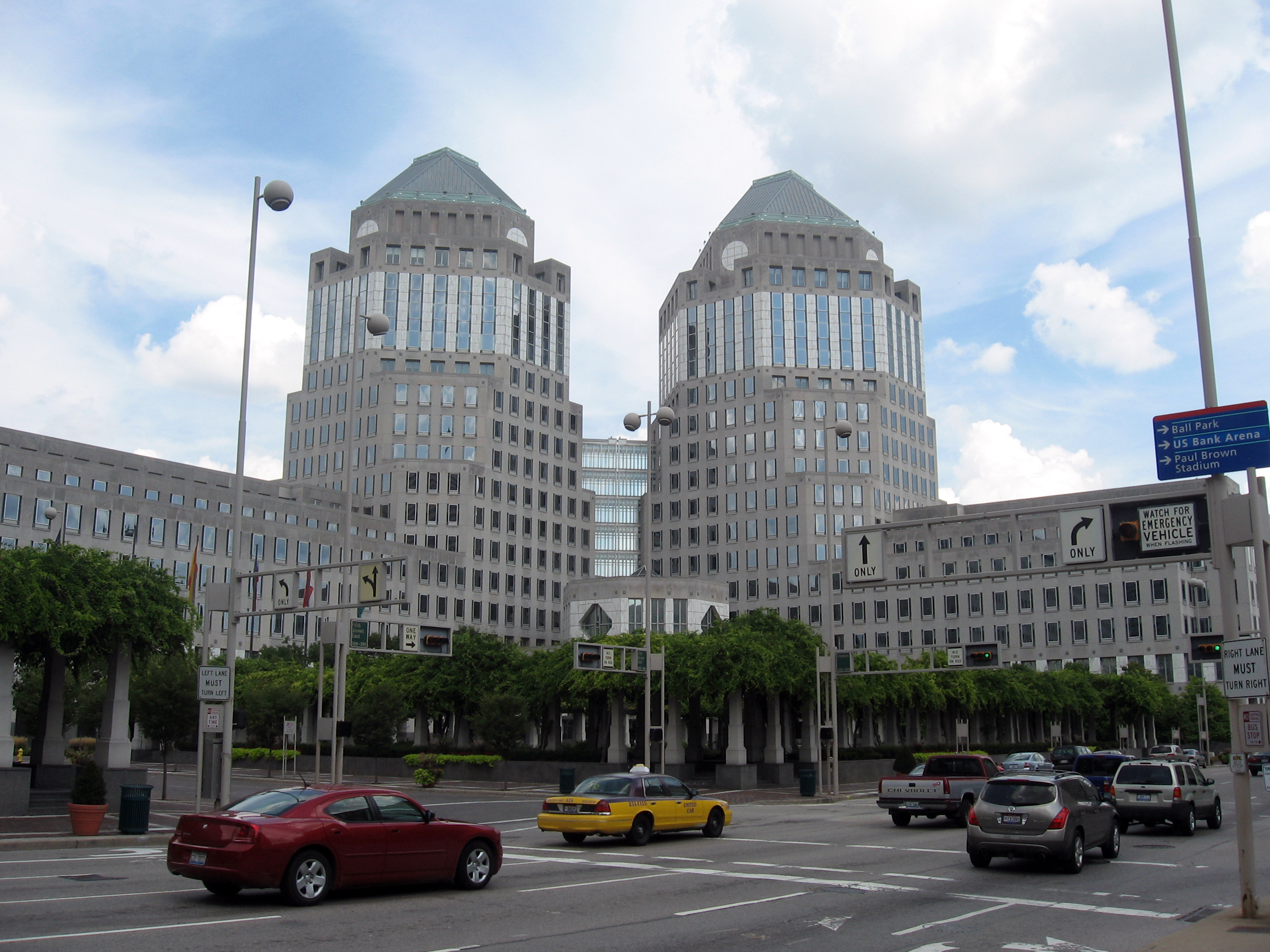 Various shots in and around downtown Cincinnati, OH and Covington, KY